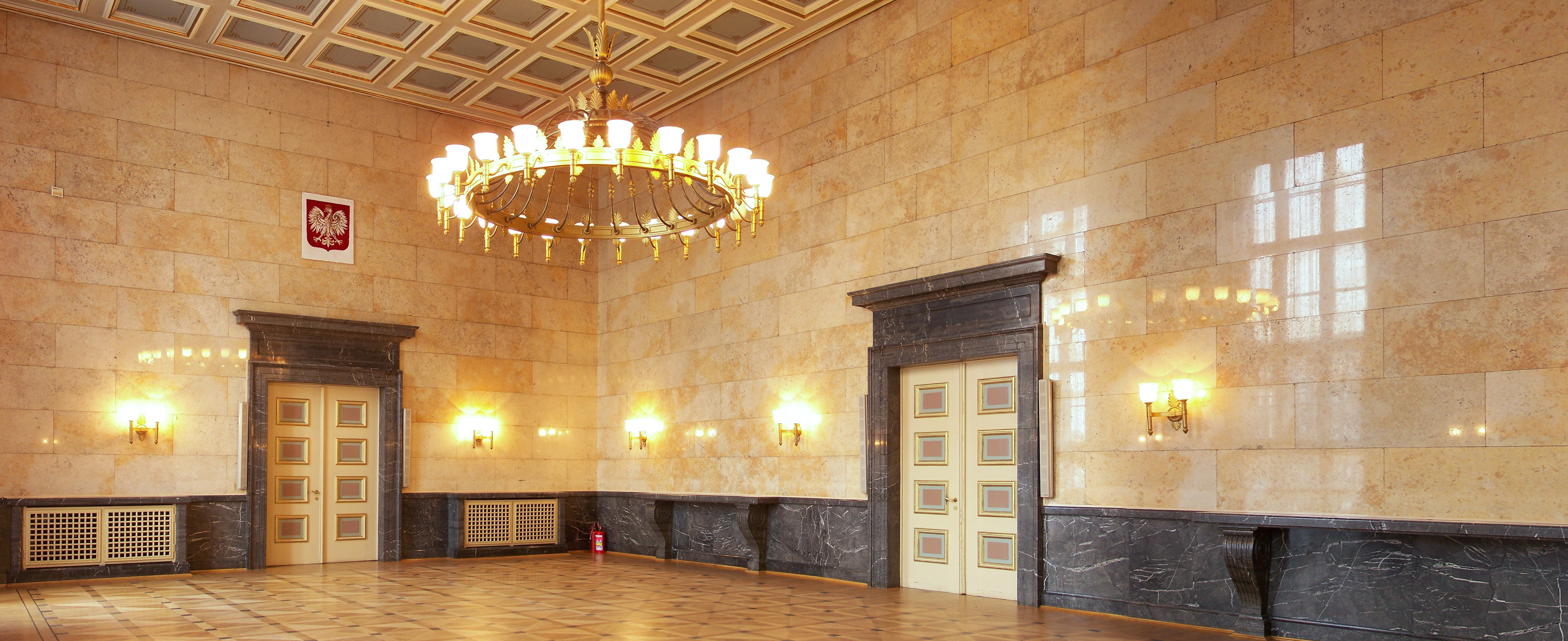 Marble Hall in Silesian Seym in Katowice (Poland).